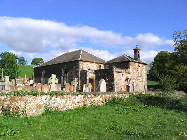 Johnstonebridge Parish Church Close by the River Annan and dating from 1745. According to the Explorer Map it is just inside the square (confirmed by GPS).